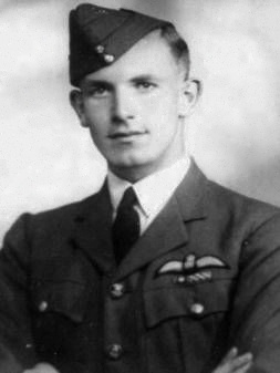 James H. Marks, Royal Air Force officer who rose to be commanding officer of No. 35 Squadron and a founding member of the Pathfinder Force.